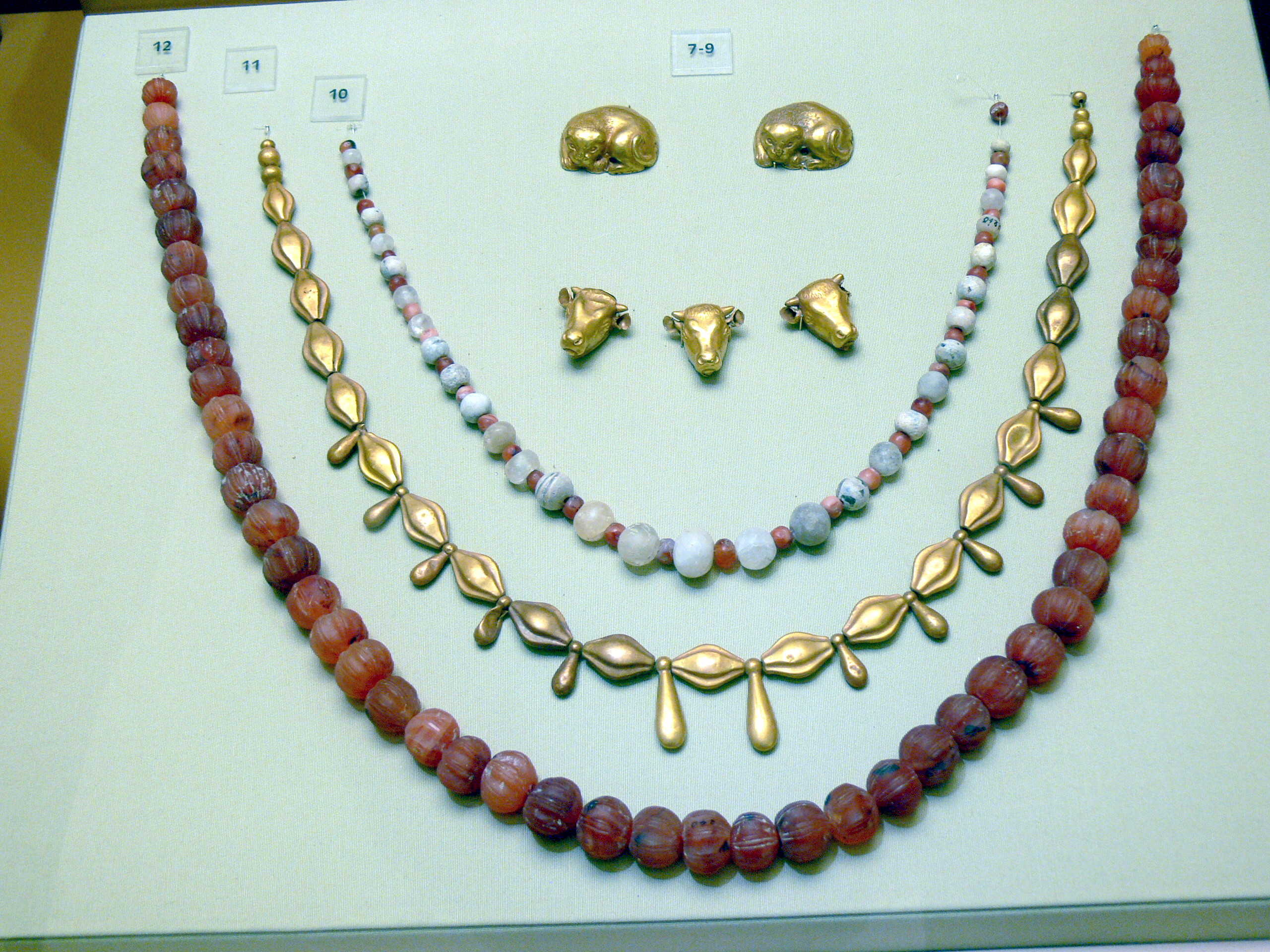 Archaeological Museum of Herakleion. Minoan jewellery.